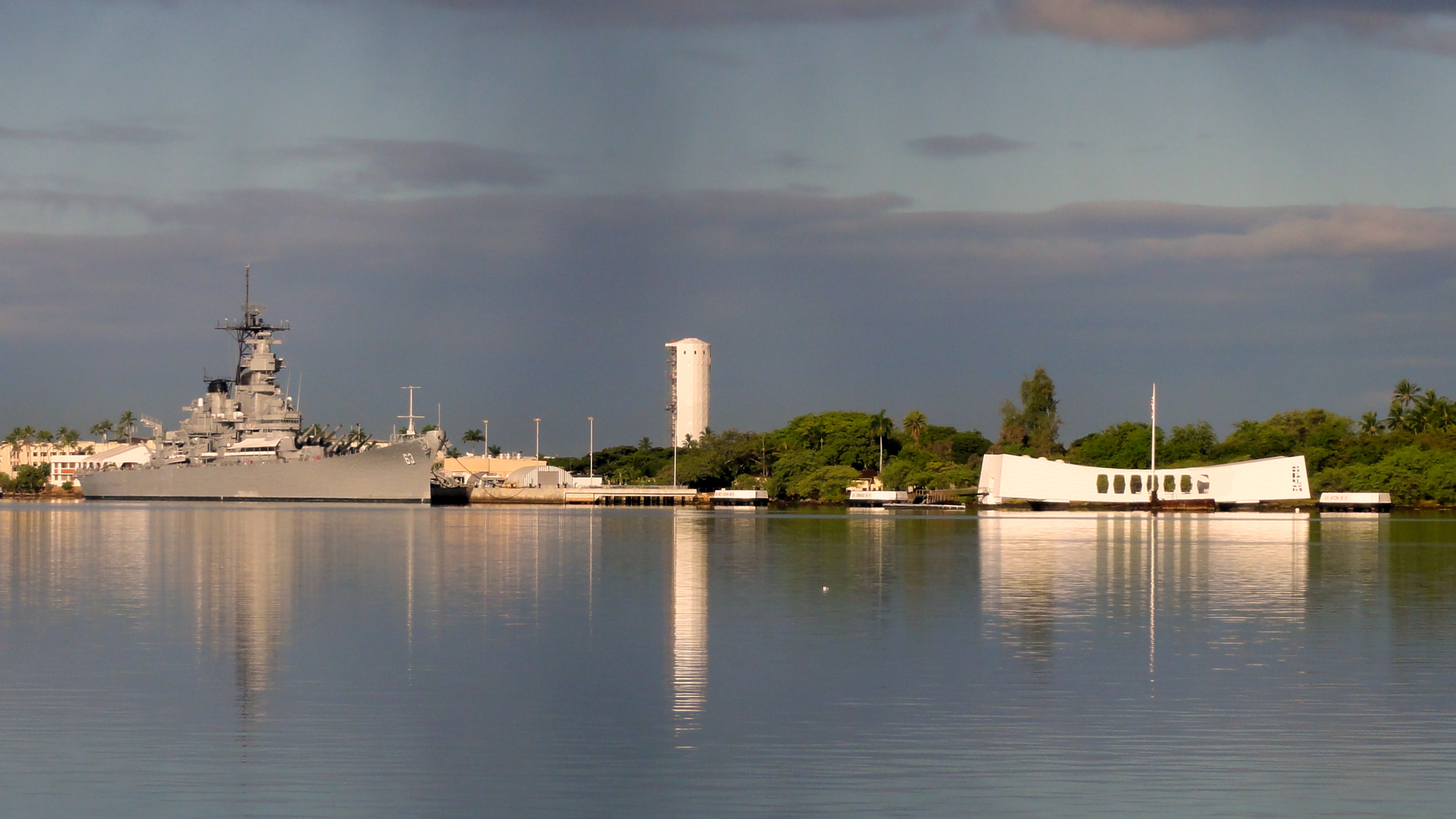 Arizona Memorial at Pearl Harbor, Hawaii